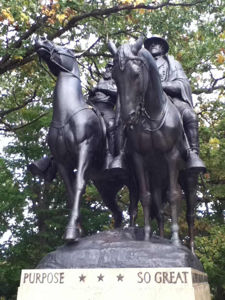 A front view of the Stonewall Jackson and Robert E Lee Monument in Charles Village, Baltimore.